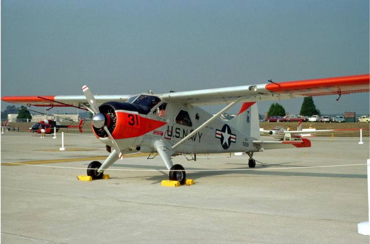 A left front view of a U-6A Beaver aircraft on display during the open house Expo '83, 08/20/1983